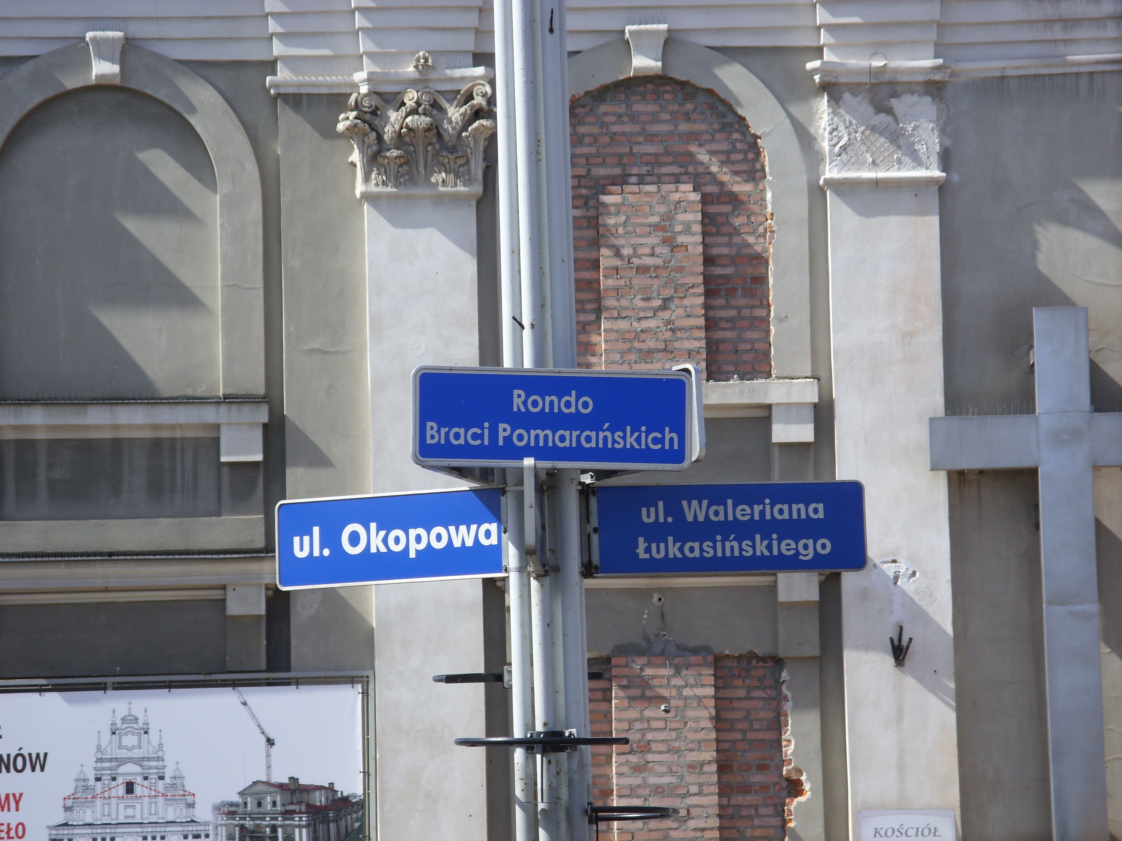 Roundabout of the Pomaranski Brothers in Zamość.